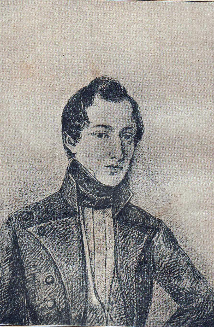 Autoportrait of Panteleimon Kulish